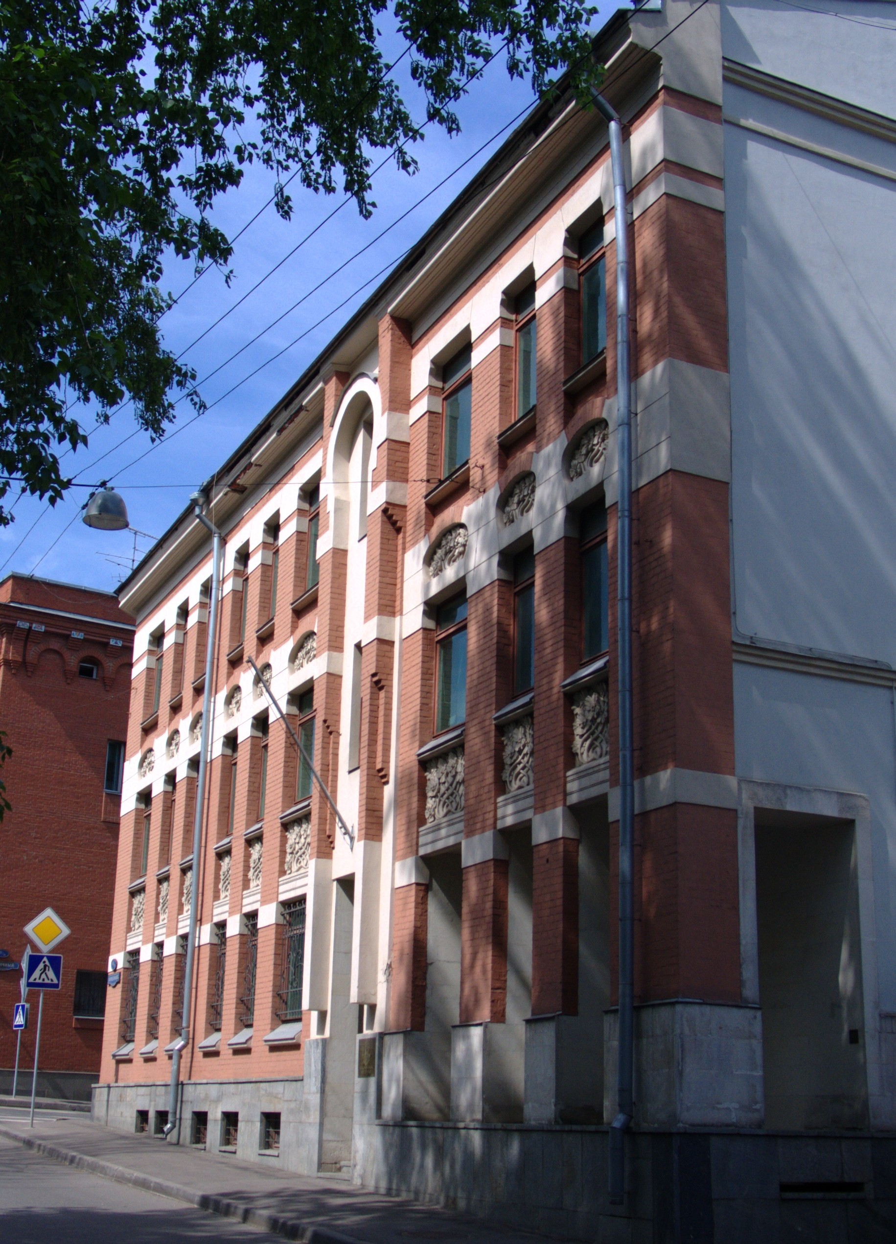 Building of the Embassy of Côte d’Ivoire in Moscow (Korobeynikov side-street 14/9).